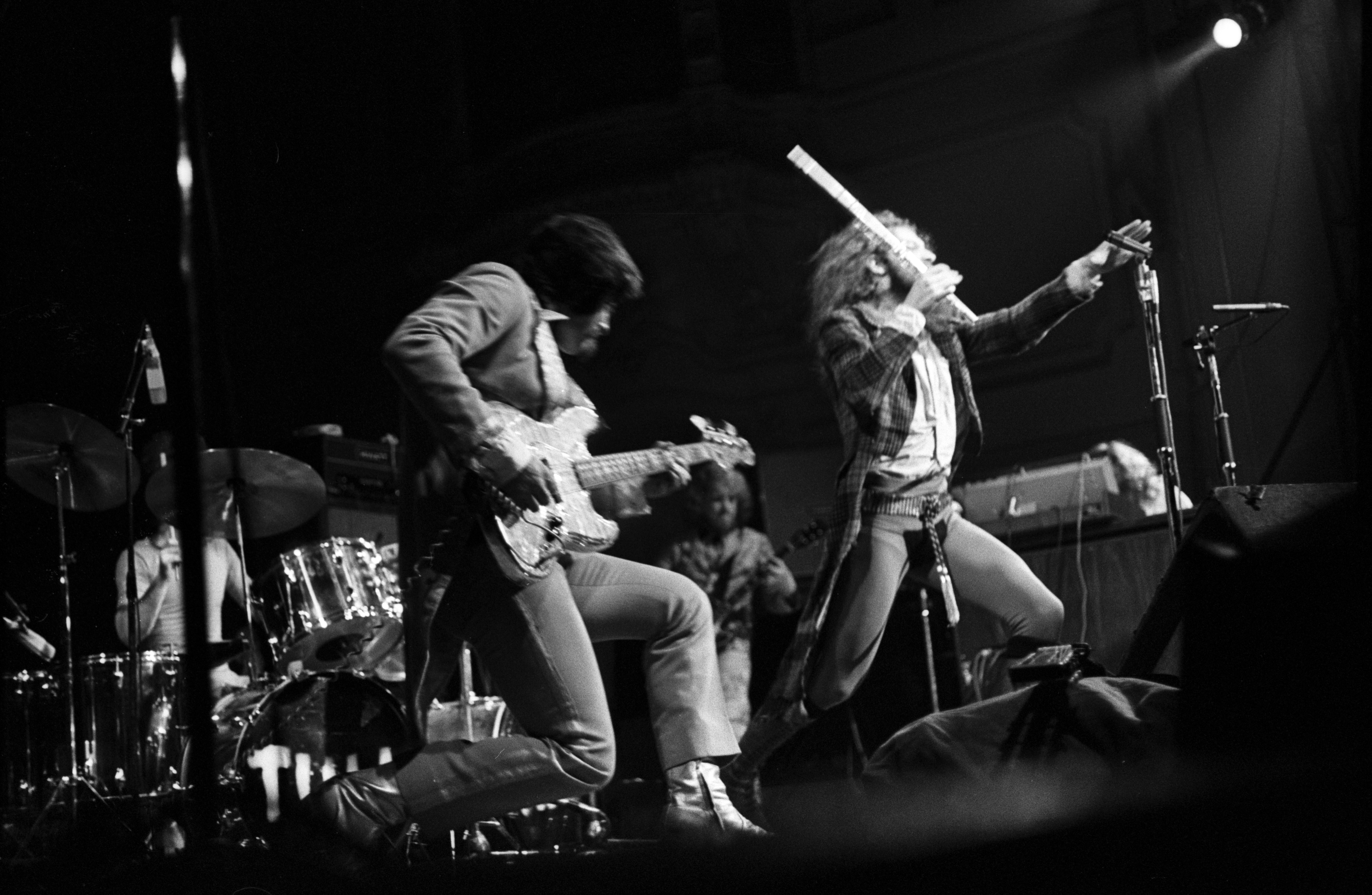 Jethro Tull, Musikhalle Hamburg, März 1973, Aqualung-Tournee, from left to right Barriemore Barlow (drums), Jeffrey Hammond (bass), Martin Barre (guitar), Ian Anderson (flute, guitar, vocals), John Evan (keyboards)